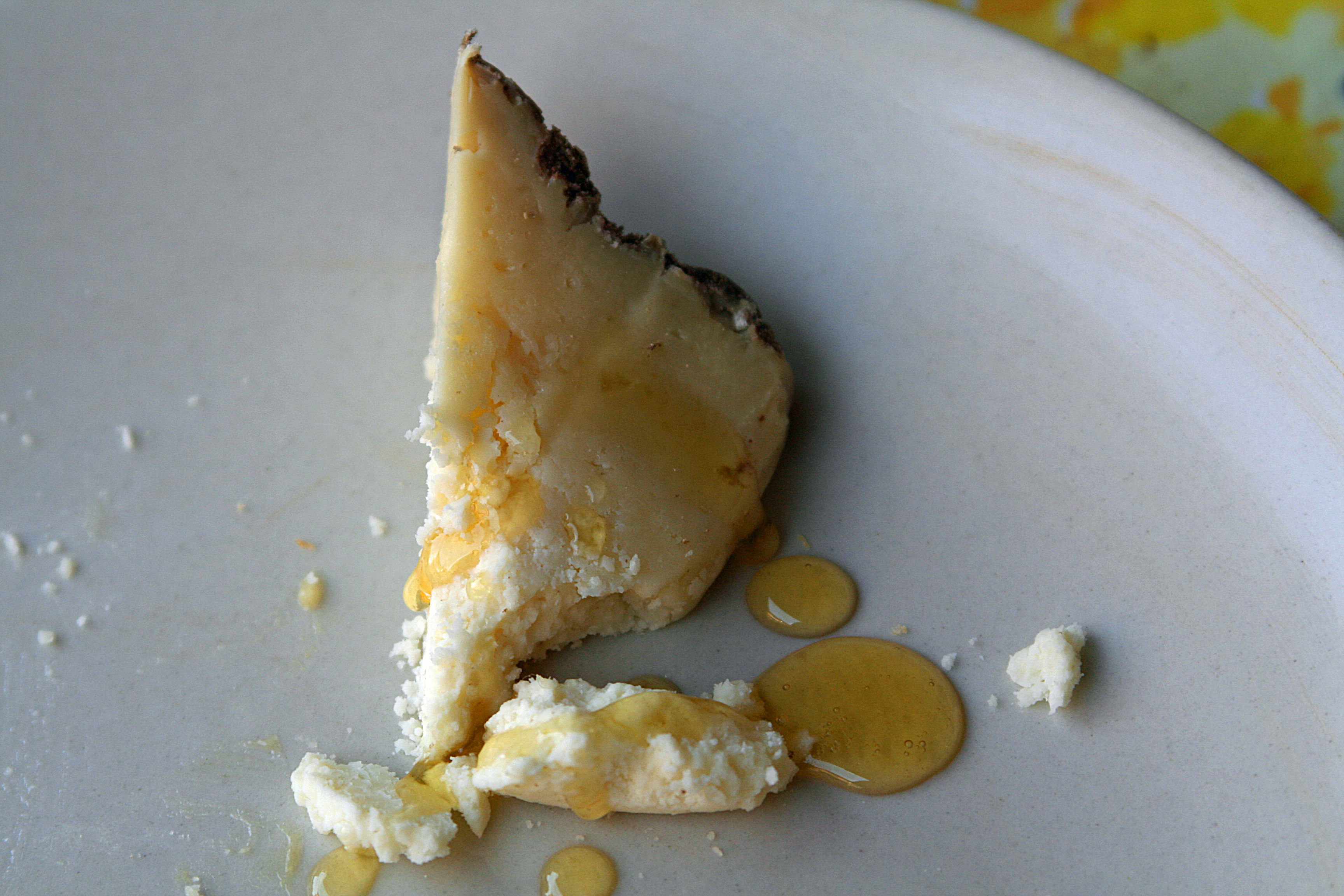 castelmagno with truffle honey.JPG